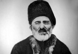 Uzun Hadji, leader of the Northern Caucasus emirate.